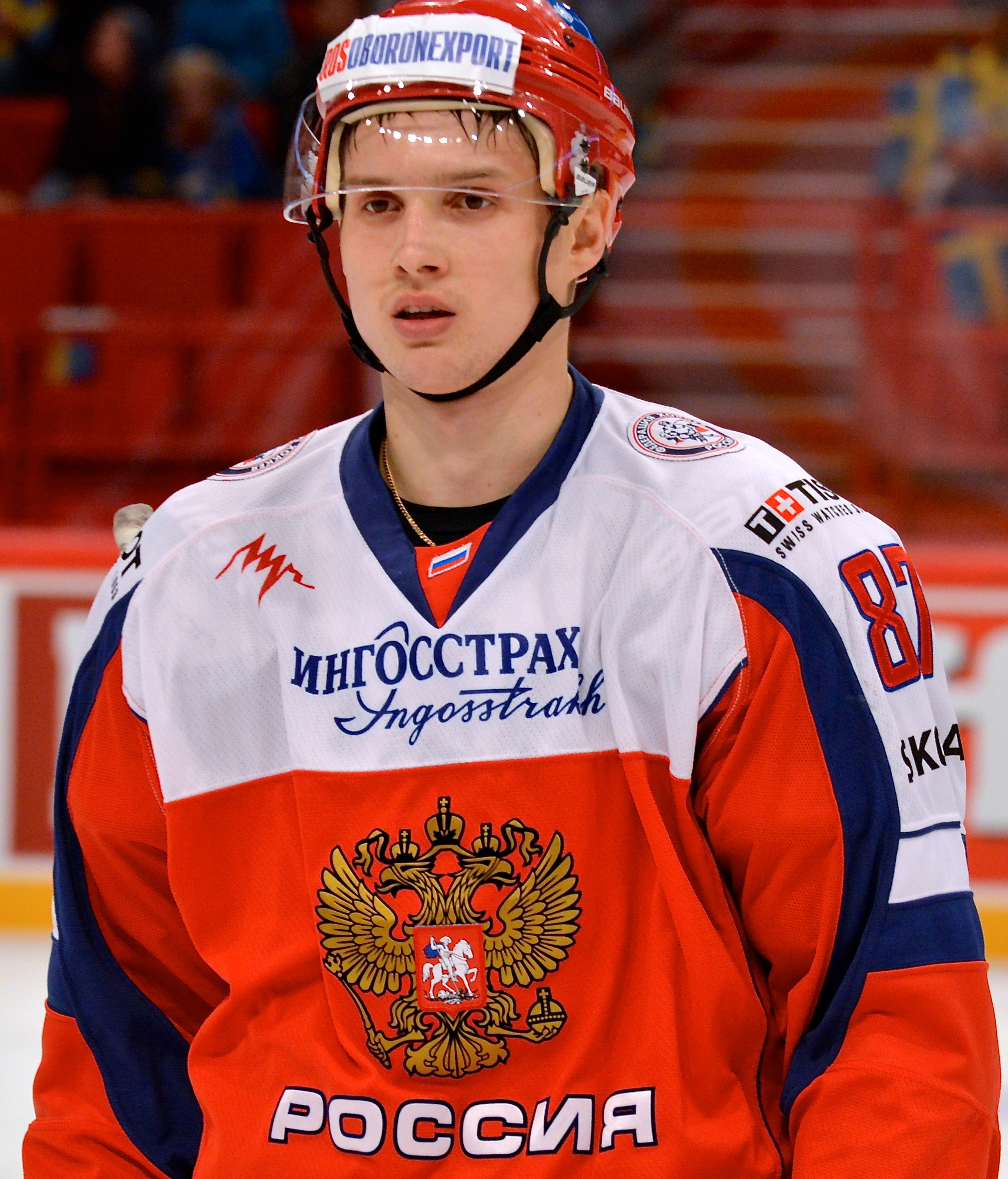 Vadim Shipachev during Oddset Hockey Games against Russia (2-0) at the Ericsson Globe in Stockholm on May 4th, 2014.